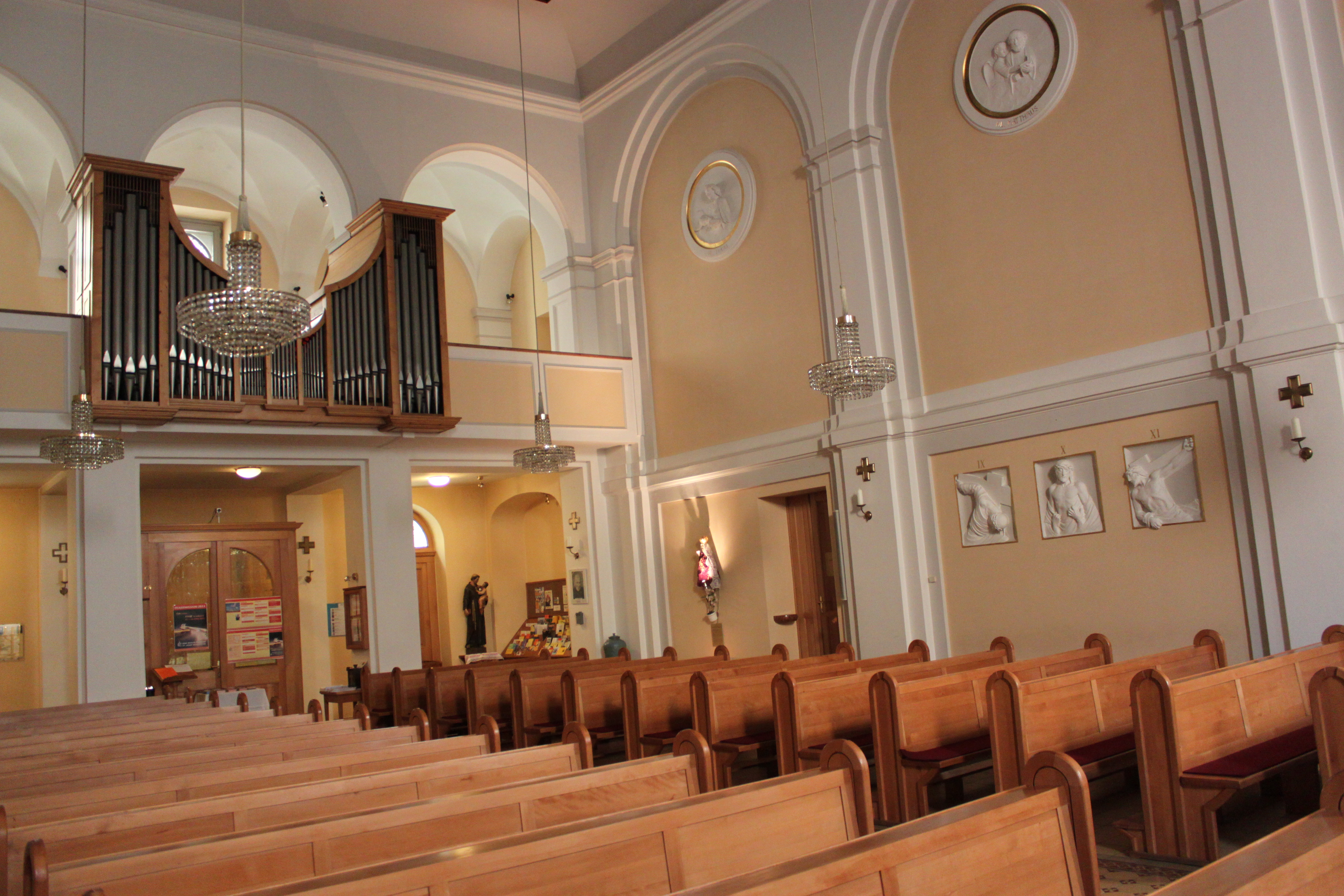 Interior room of St. Joseph-Church in the 14th district of Vienna